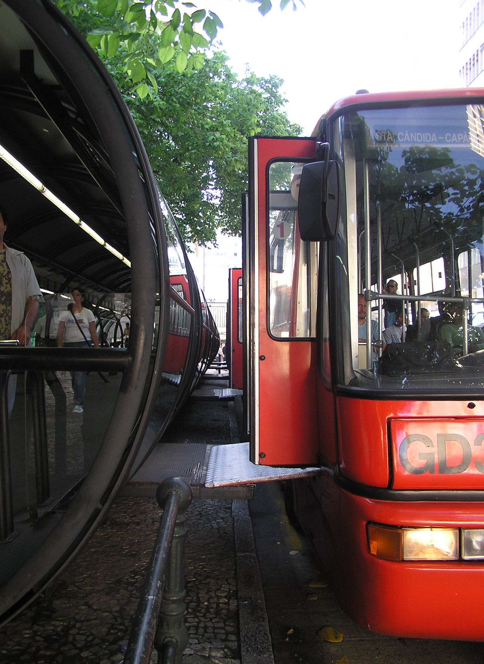 Bus stop in Curitiba, Paraná, Brasil. Marcopolo Torino Biarticulado bus (#GD3...) with Volvo B58 Biarticulado chassis.